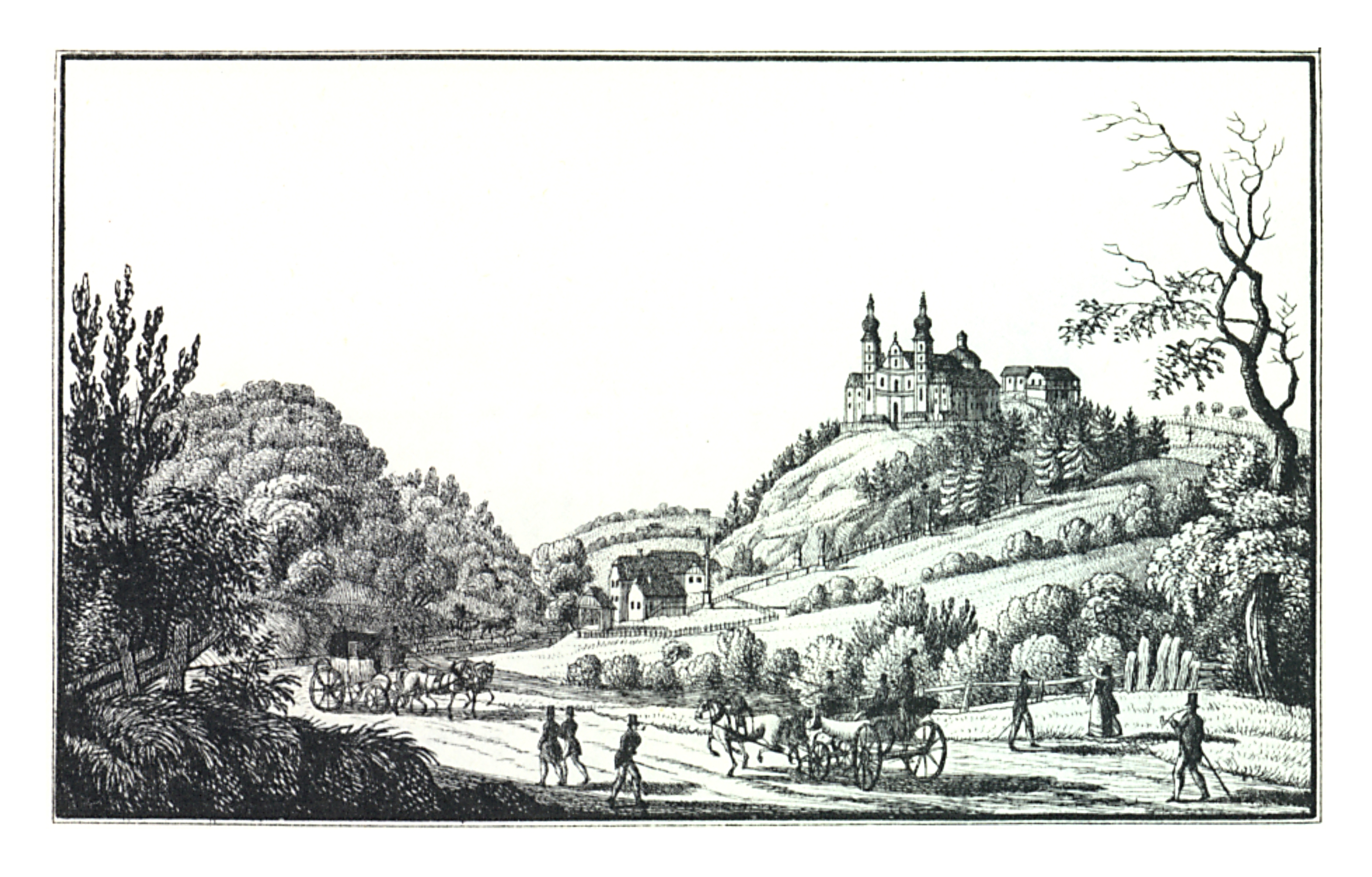 J. F. Kaiser - lithographirte Ansichten der Steyermärkischen Städte, Märkte und Schlösser, Graz 1824-1833 Joseph Franz Kaiser (1786–1859) Alternative names J. F. KaiserDescriptionAustrian printer and editorDate of birth/death 11 March 1786 19 September 1859Location of birth/death Graz (Styria) GrazAuthority control : Q1499963 VIAF: 30629353 ISNI: 0000 0000 3083 0153 LCCN: n87141671 GND: 129880159 NLP: A24960305 WorldCat creator QS:P170,Q1499963 . Scanprojekt Community Projektbudget 2012 This scan or this PDF-file was created within the GLAM-project Bookscanning, supported by Wikimedia Germany and Wikimedia Austria as a part of the community-project to capture books, documents and pictures which are not eligible to copyright or for which the copyright has expired. This document describes or depicts an object which is located in Austria today. Send requests for uncompressed scans to Hubertl. This work is in the public domain in its country of origin and other countries and areas where the copyright term is the author's life plus 100 years or fewer. You must also include a United States public domain tag to indicate why this work is in the public domain in the United States. This file has been identified as being free of known restrictions under copyright law, including all related and neighboring rights.